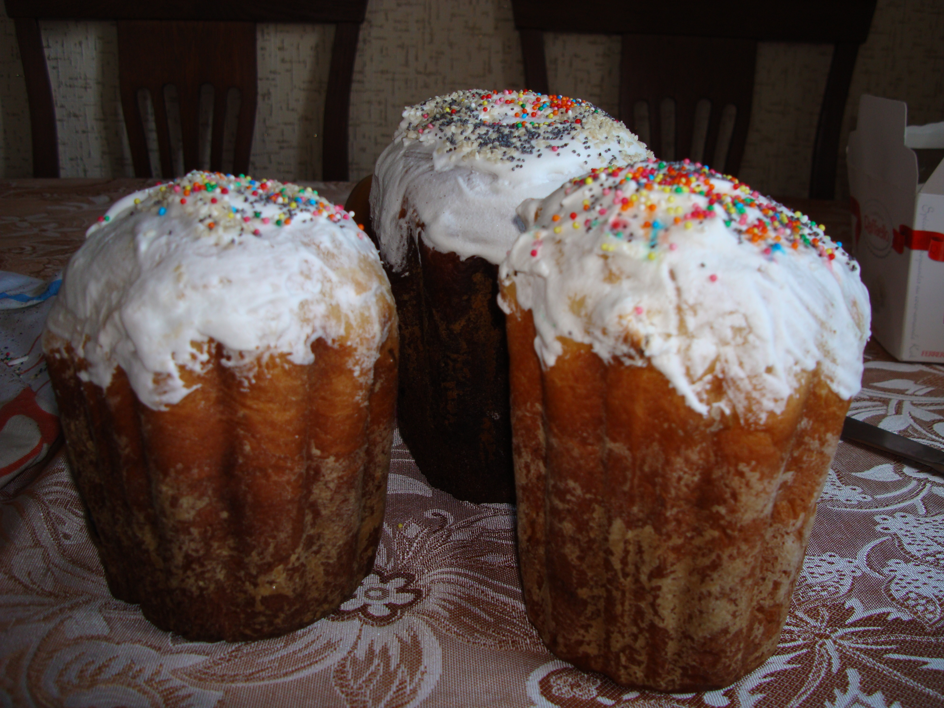 Kulich pies